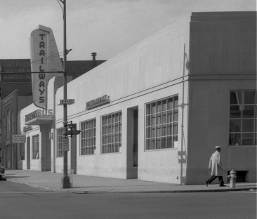 View of the Trailways Station, Richmond, Virginia, October 1960. Cropped from the photo "East Broad Street looking west from 9th Street" Attribution: Adolph B. Rice Studio collection of the Library of Virginia. (CC BY-SA 2.0)